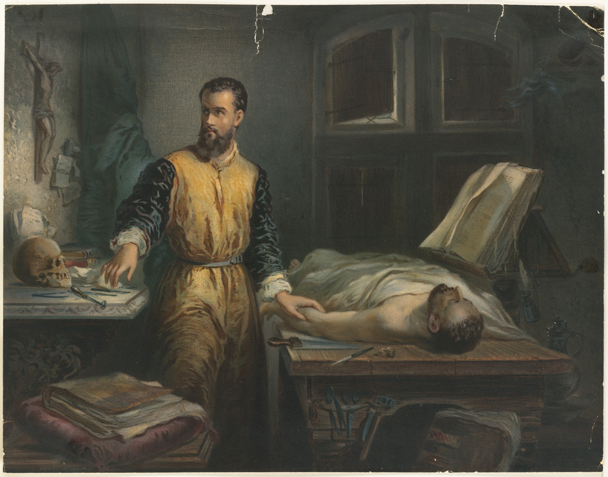 File name: 07_11_000332 Title: Andre Vesale Creator/Contributor: Hamman, Edouard, 1819-1888 (artist); L. Prang & Co. (publisher) Date issued: 1861-1897 (approximate) Physical description note: Genre: Chromolithographs; Portrait prints Location: Boston Public Library, Print Department Rights: No known restrictions Flickr data on 2011-08-07: Camera: Sinar AG Sinarback 54 FW, Sinar m License: CC BY 2.0 User: Boston Public Library BPL